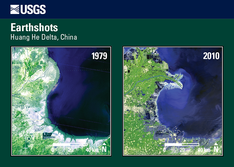 HuangHe Delta, China. Credit: U.S. Geological Survey Department of the Interior/USGS Landsat